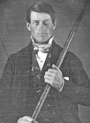 A daguerreotype of Phineas Gage with the iron rod believed to have penetrated his skull